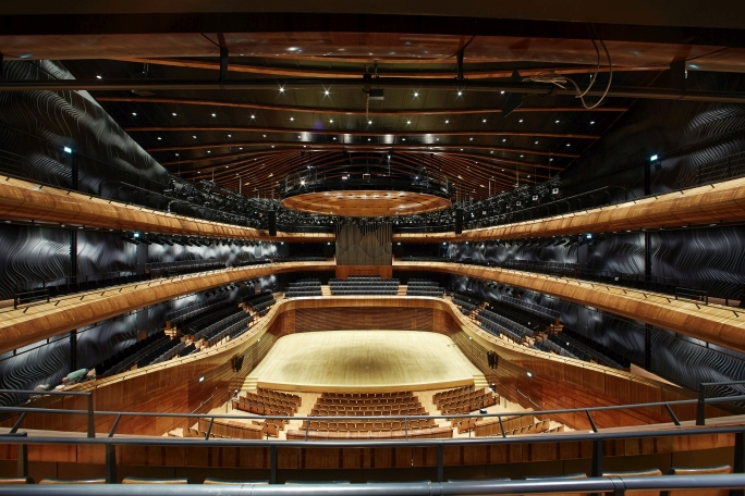 The Concert Hall of the National Polish Radio Symphony Orchestra (NOSPR) in Katowice